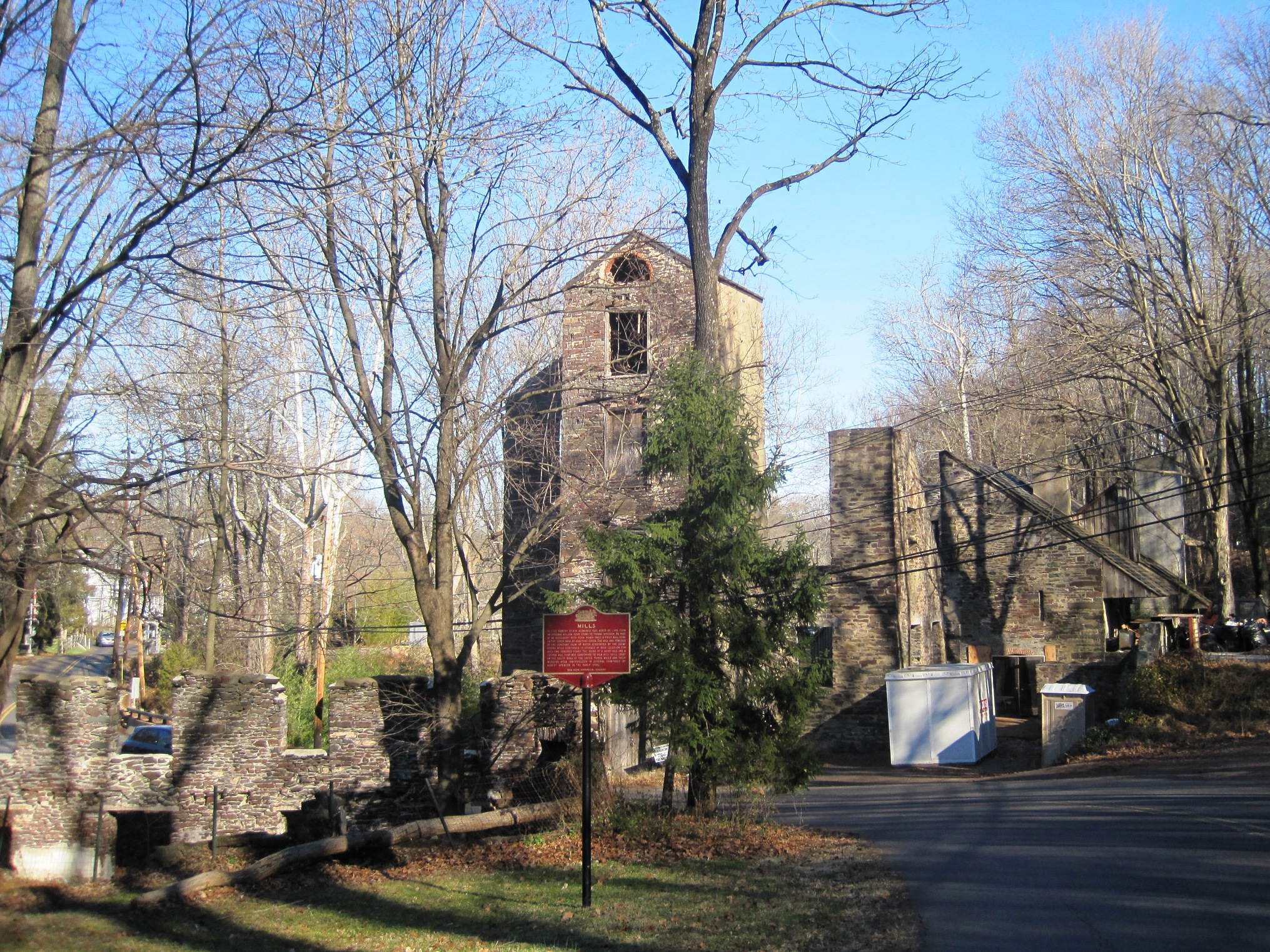 Photo of ruins of the Robert Heath Mills, in Hood, New Hope, Pennsylvania. Photo taken looking north along Sugan Road between Stoney Hill Road and Mechanic Street.